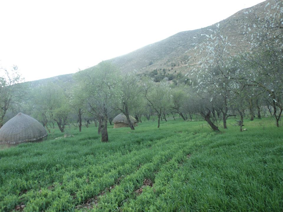 alhoceimarif